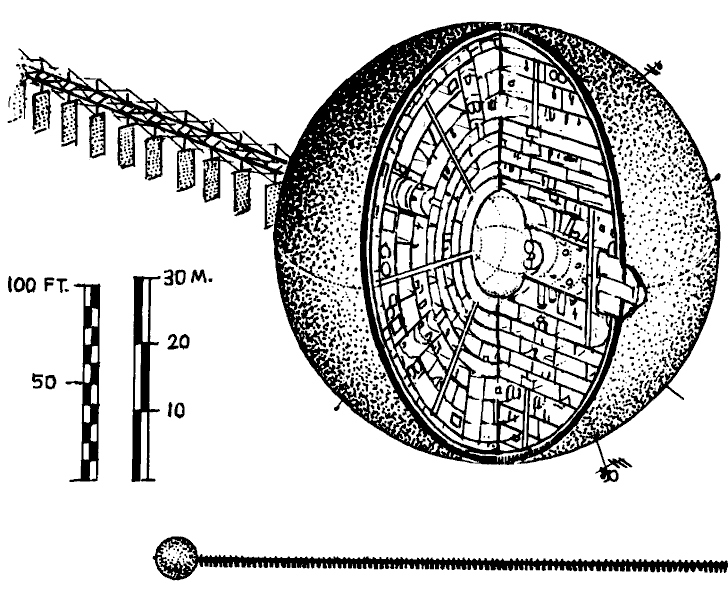 Deck layout of R. H. Goddard. Rotation gives Earth-normal gravity in lowest levels.